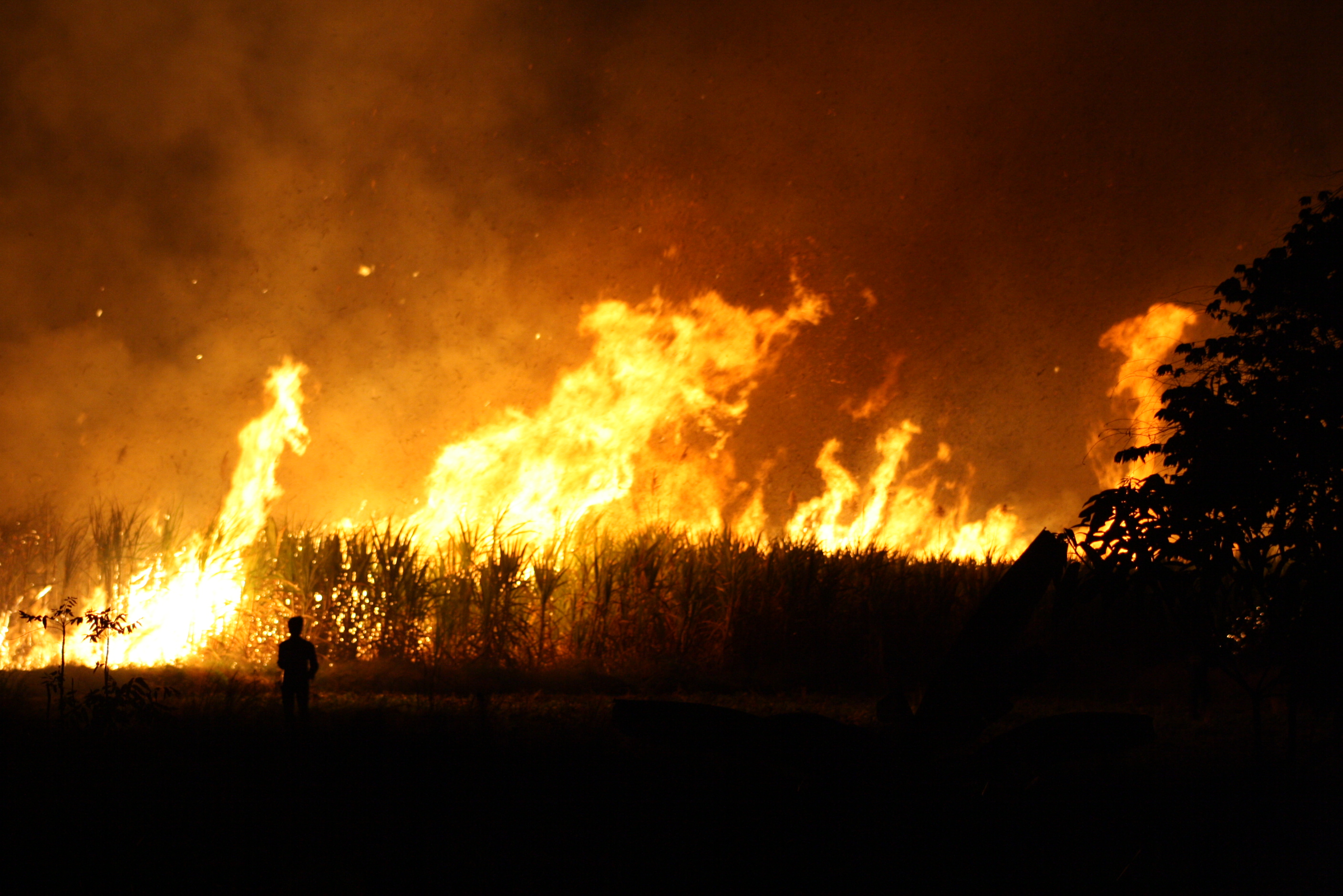 Burning sugar field with fire guards in Ban Khok Sa-at, Ampoe Si Thep, Thailand